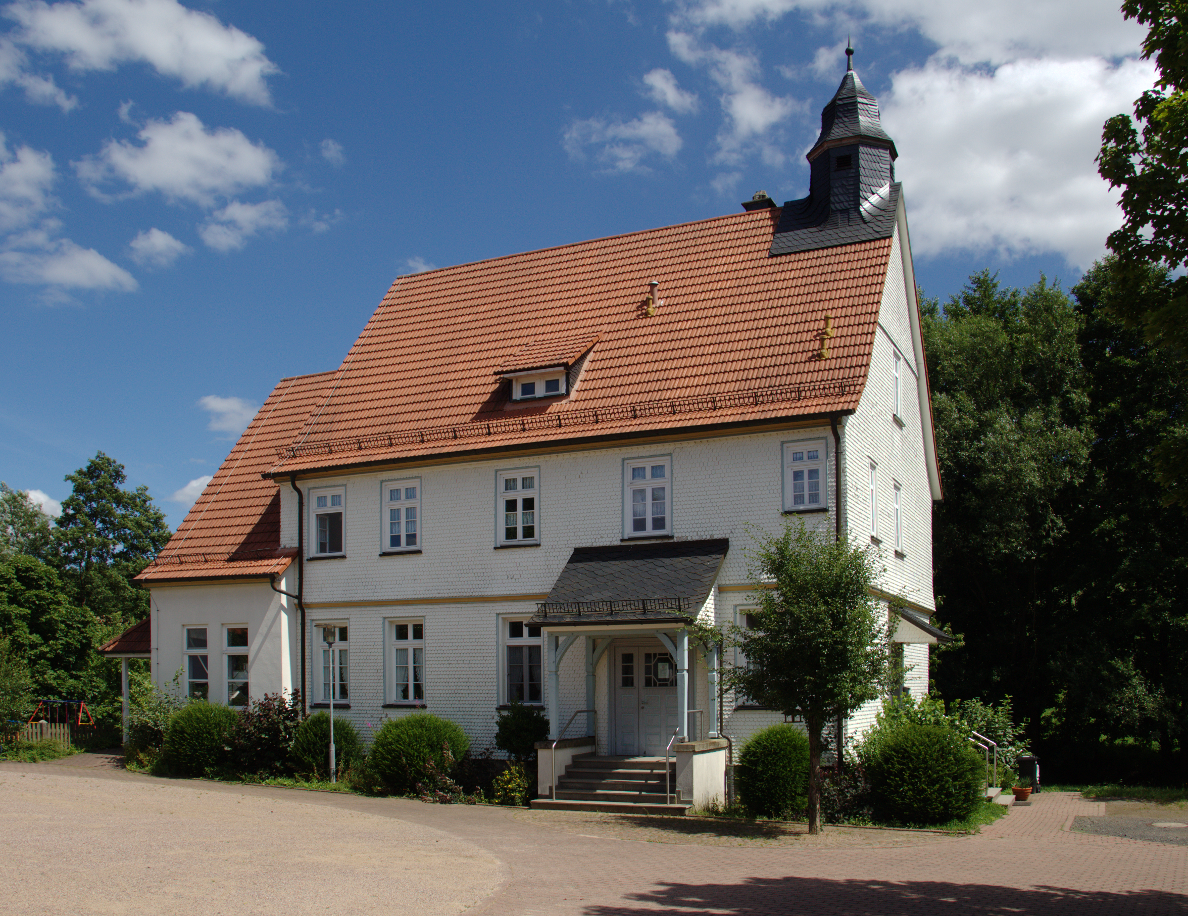 Community Centre (DGH) in Holzmuehl, Freiensteinau, Hesse, Germany